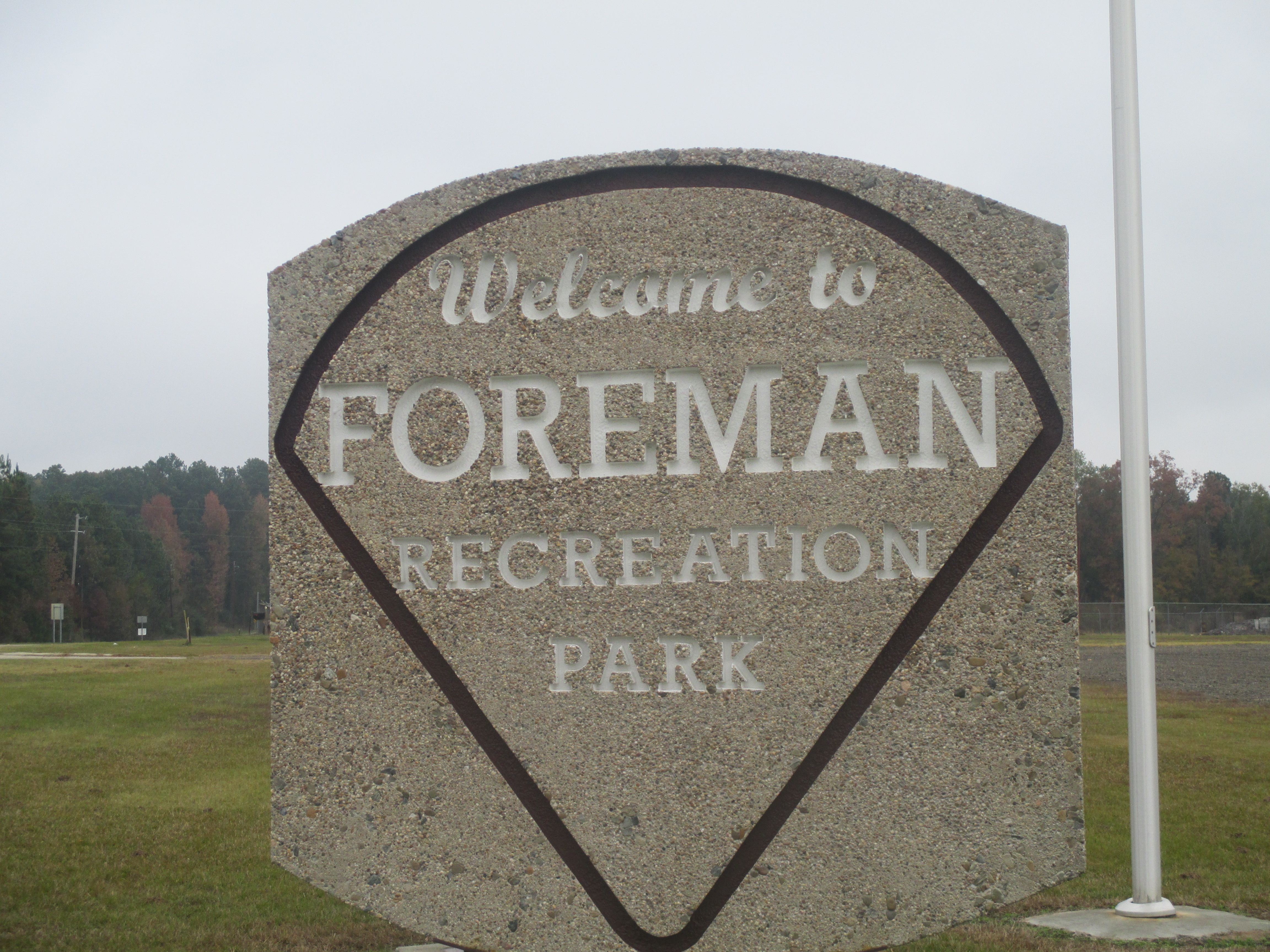 I took photo with Canon camera of entrance sign at Foreman Recreation Park in Foreman, AR.